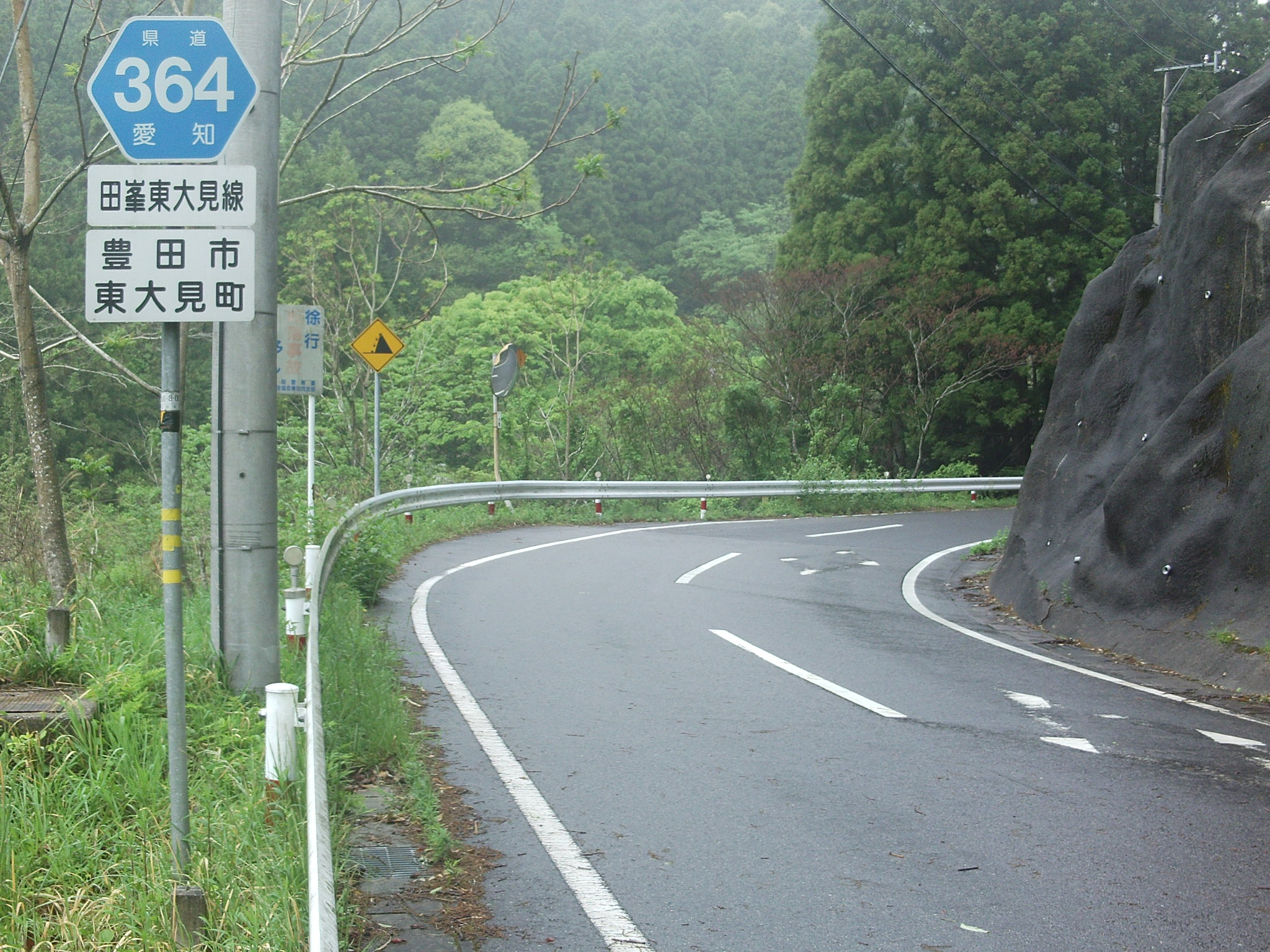 Aichi prefectural road No.364 in Higashiomicho, Toyota, Aichi.